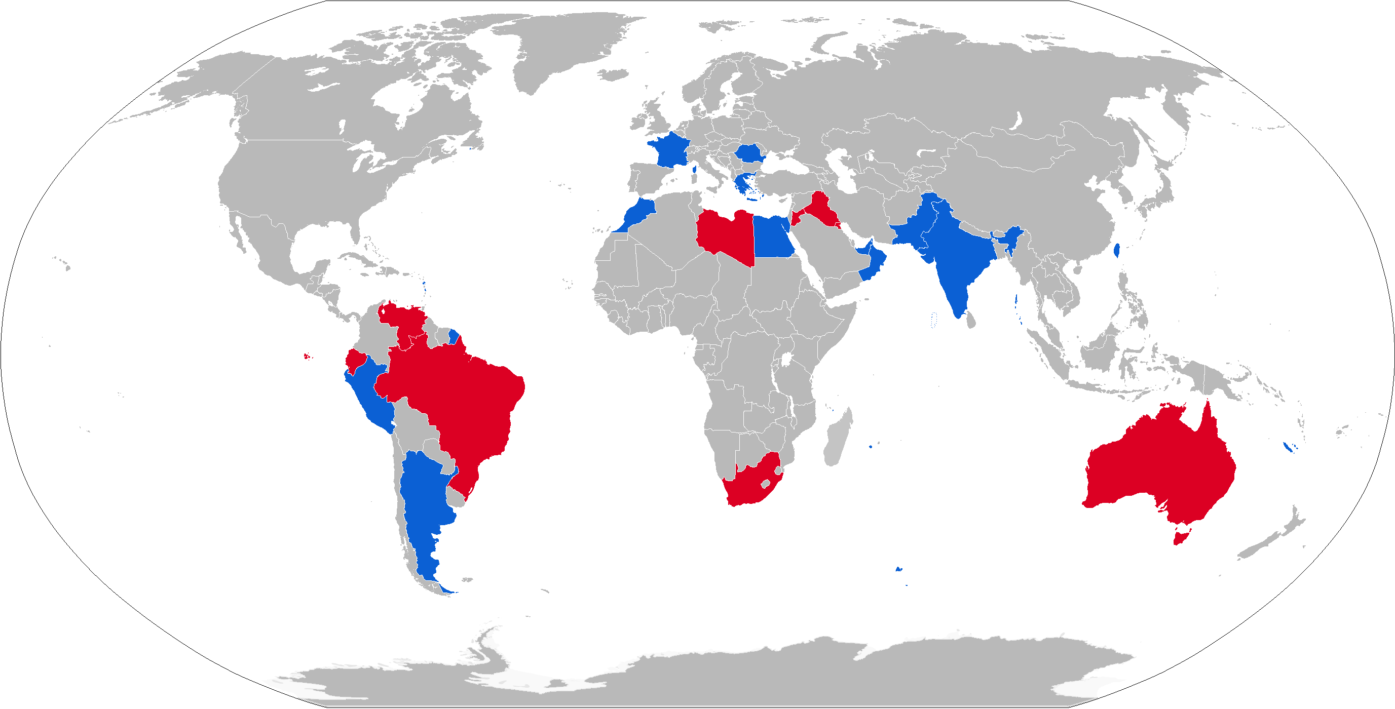 Map with R.550 operators in blue and former operators in red